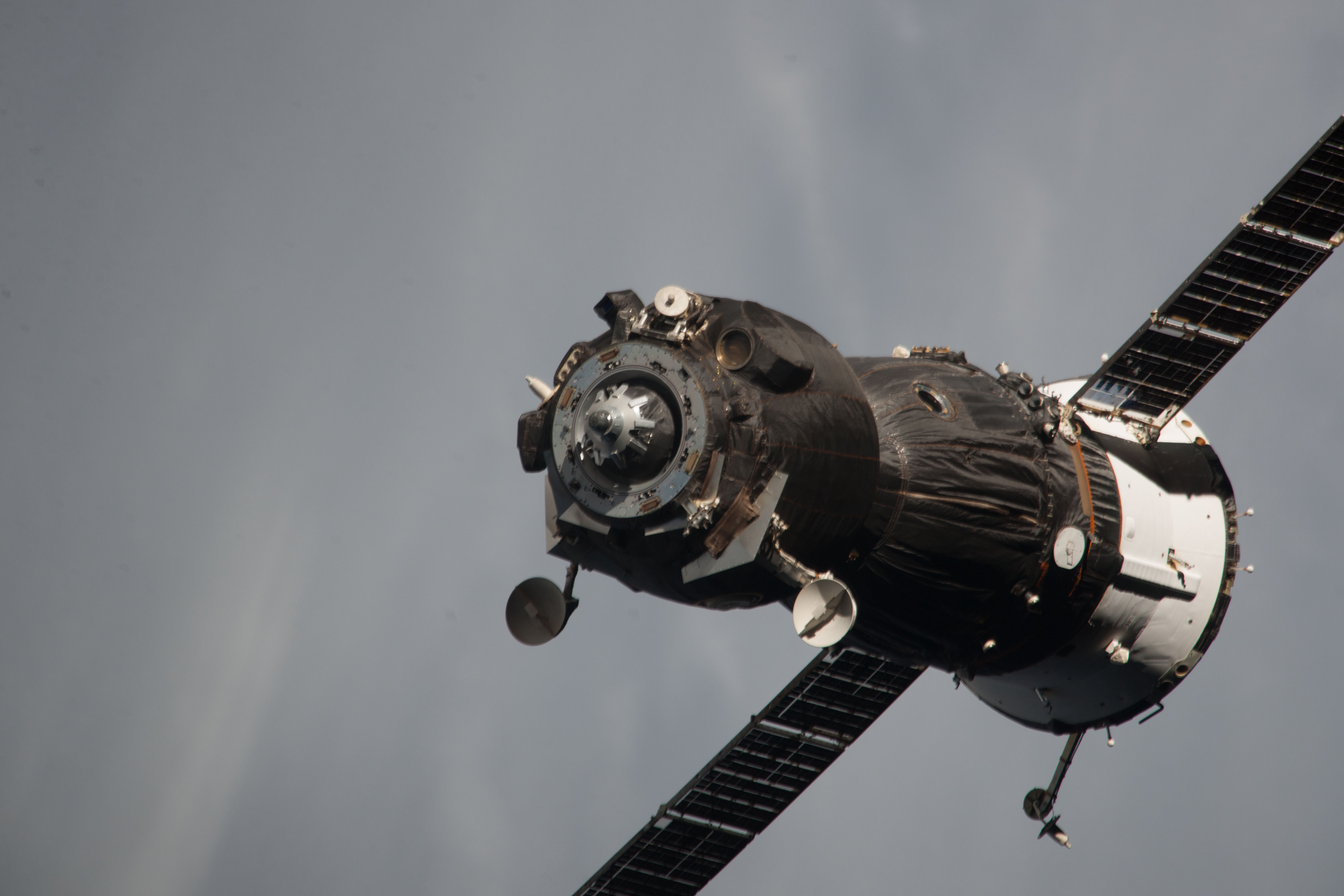 ISS038-E-001190 (10 Nov. 2013) --- The Soyuz TMA-09M spacecraft departs from the International Space Station’s Zvezda Service Module and heads toward a landing near the town of Zhezkazgan, Kazakhstan on Nov. 11, 2013 (Kazakh time). Russian cosmonaut Fyodor Yurchikhin, Expedition 37 commander; along with NASA astronaut Karen Nyberg and European Space Agency astronaut Luca Parmitano, both flight engineers, are ending a five-and-a-half month stay at the space station where they served as members of the Expedition 36 and 37 crews.